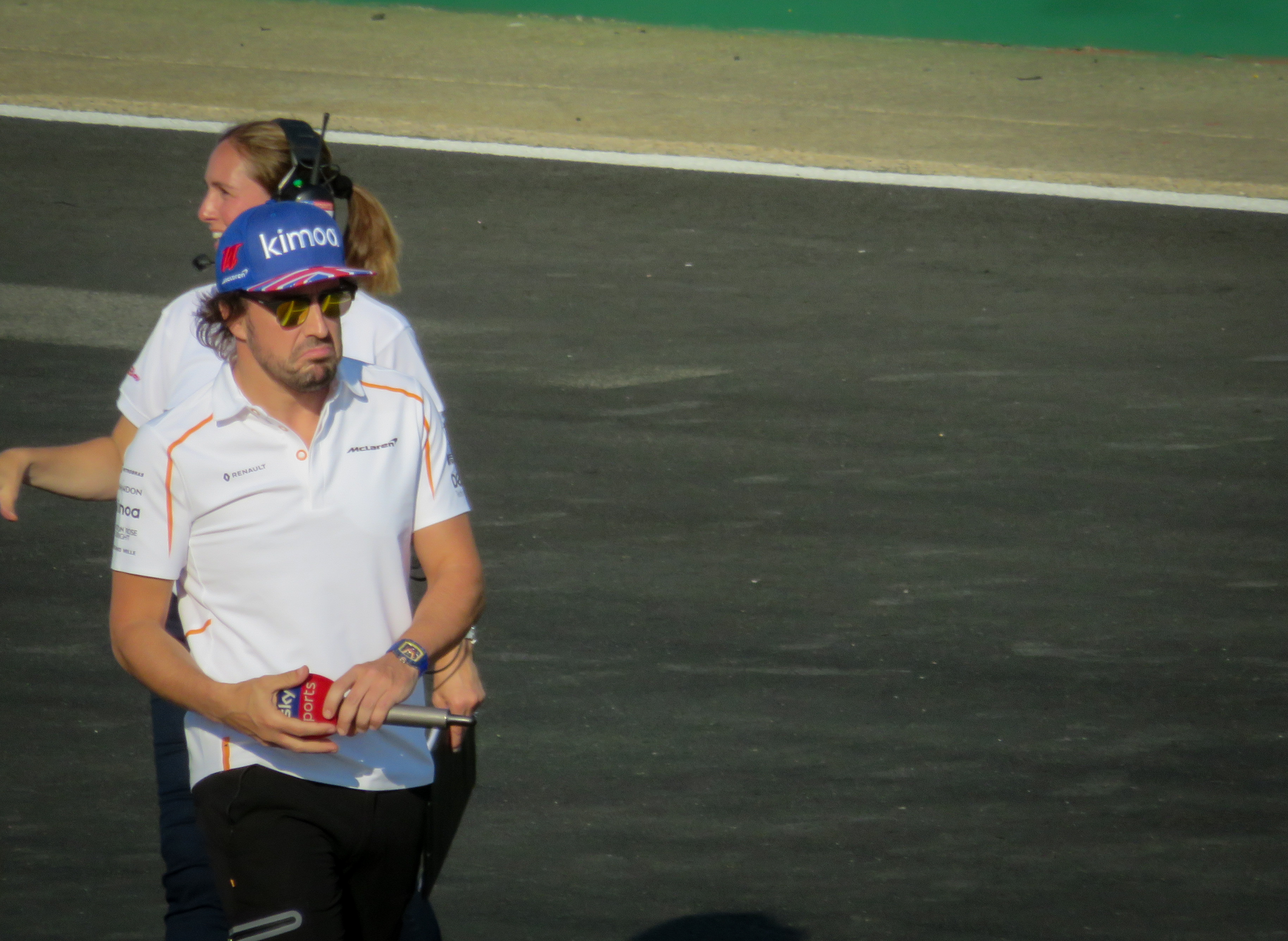 Fernando Alonso, The Sky F1 Show Live, British GP 2018